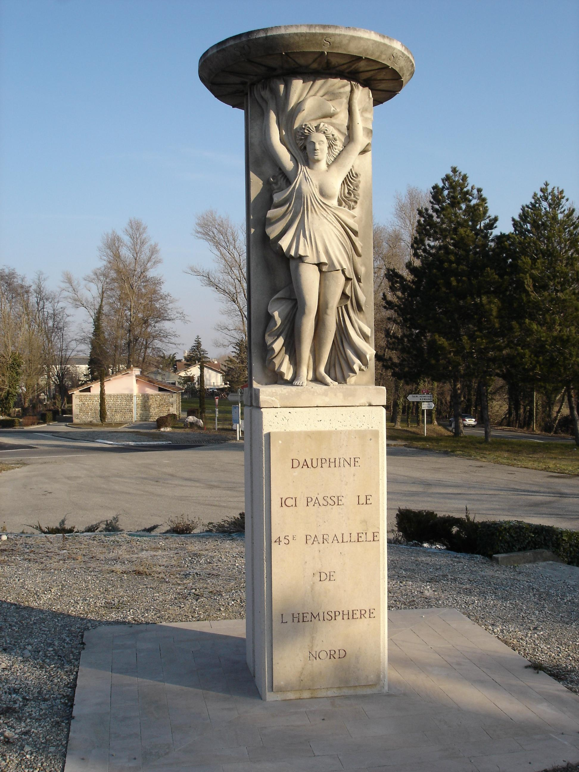 Monument to the passage of the 45th parallel in Pont-de-l'Isère (Drome / France)